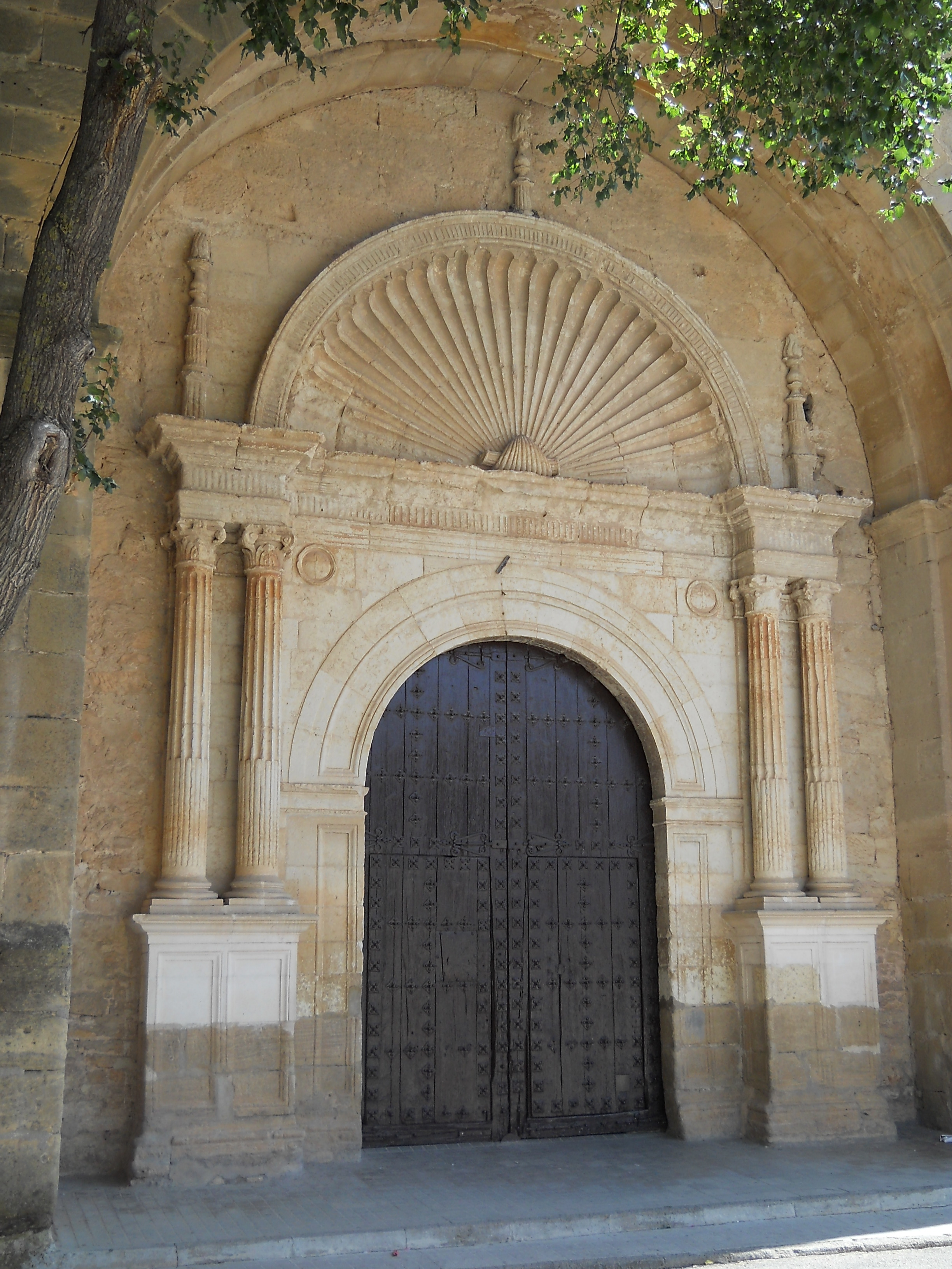 Church of St. Micheal, Mota del Cuervo, Cuenca, Spain